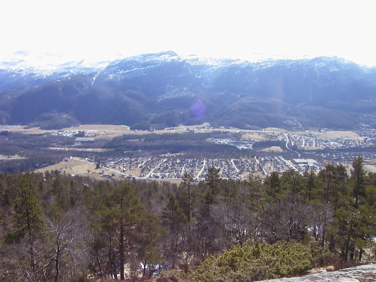 Sauda in Rogaland, Norway